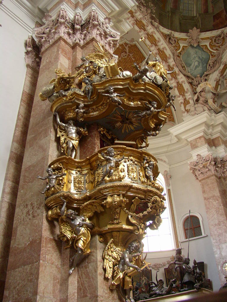 Barque pulpit in Innsbruck, Austria.